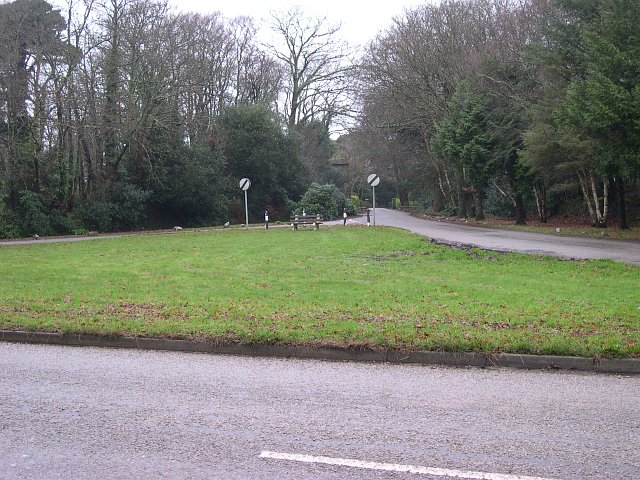 Green Triangle at South Tehidy. South Tehidy is an area of detached housing hidden amongst trees. This green triangle at a road junction is one of the few areas of open land.